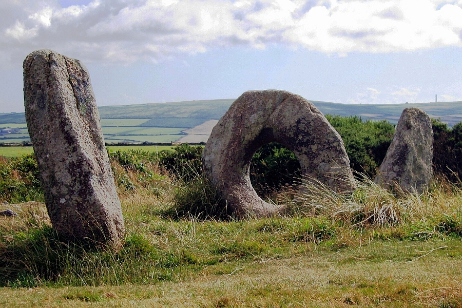 Men-an-Tol - Megalith - Cornwall - UK